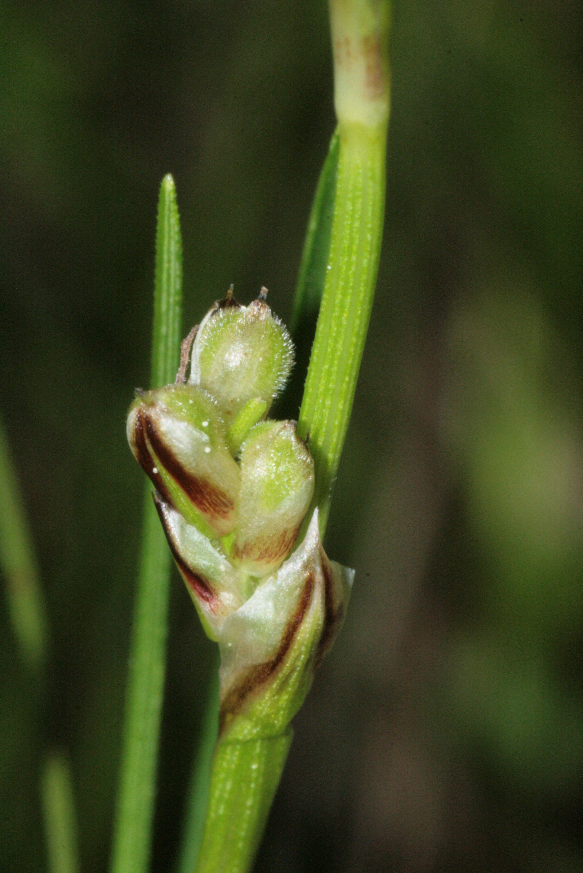 Carex humilis